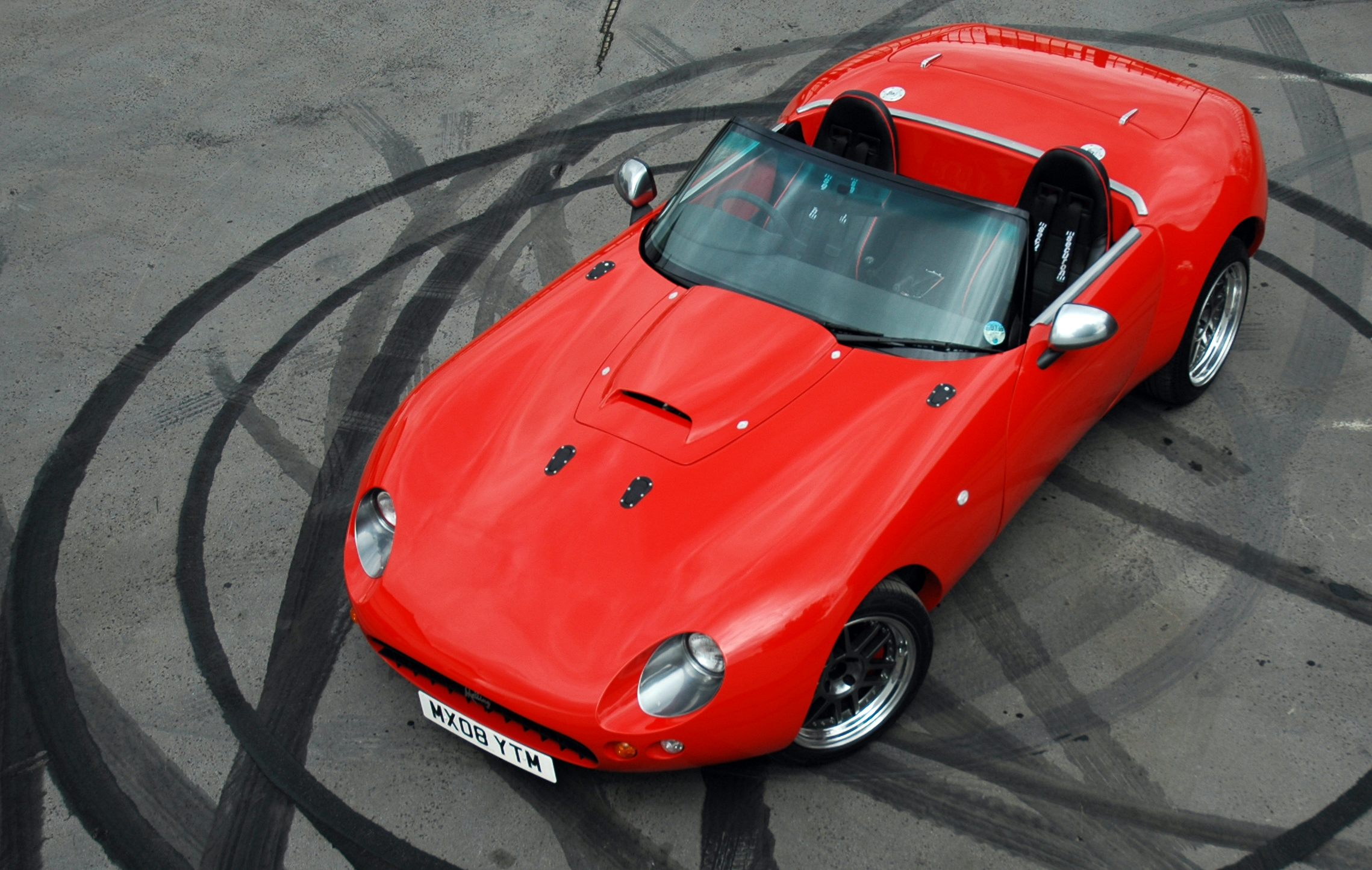 Photo of the Melling Wildcat - a new British sports car